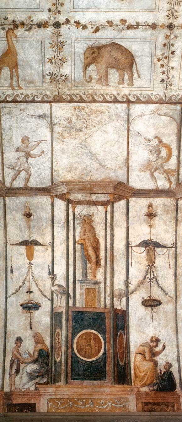 Decoration of Cardinal Bibbiena's Loggetta